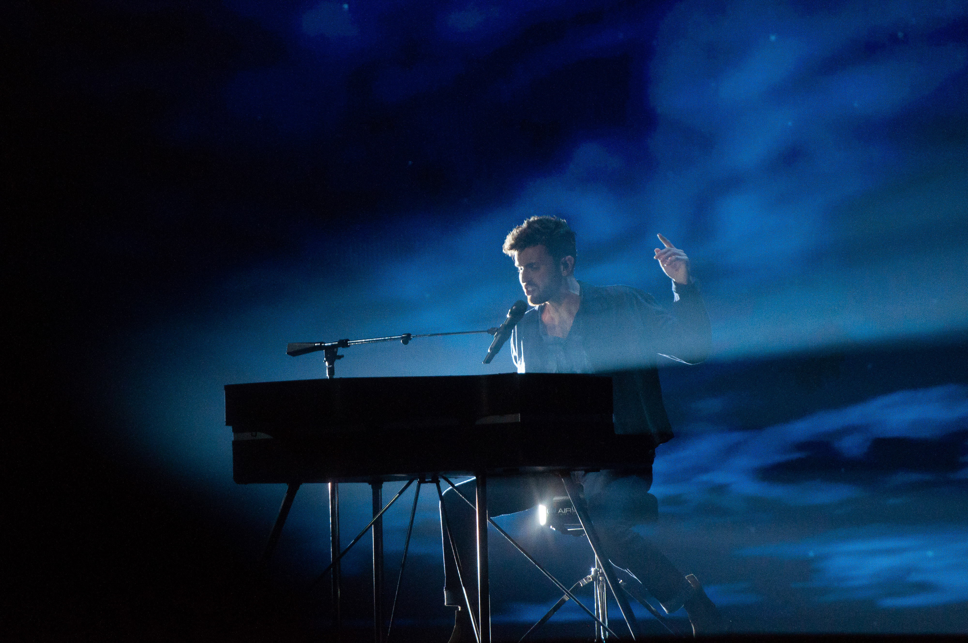 Duncan Laurence (Netherlands 2019) at the 2019 Eurovision Song Contest Grand Final Dress Rehearsal.